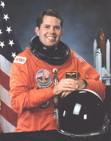 Astronaut David Leestma